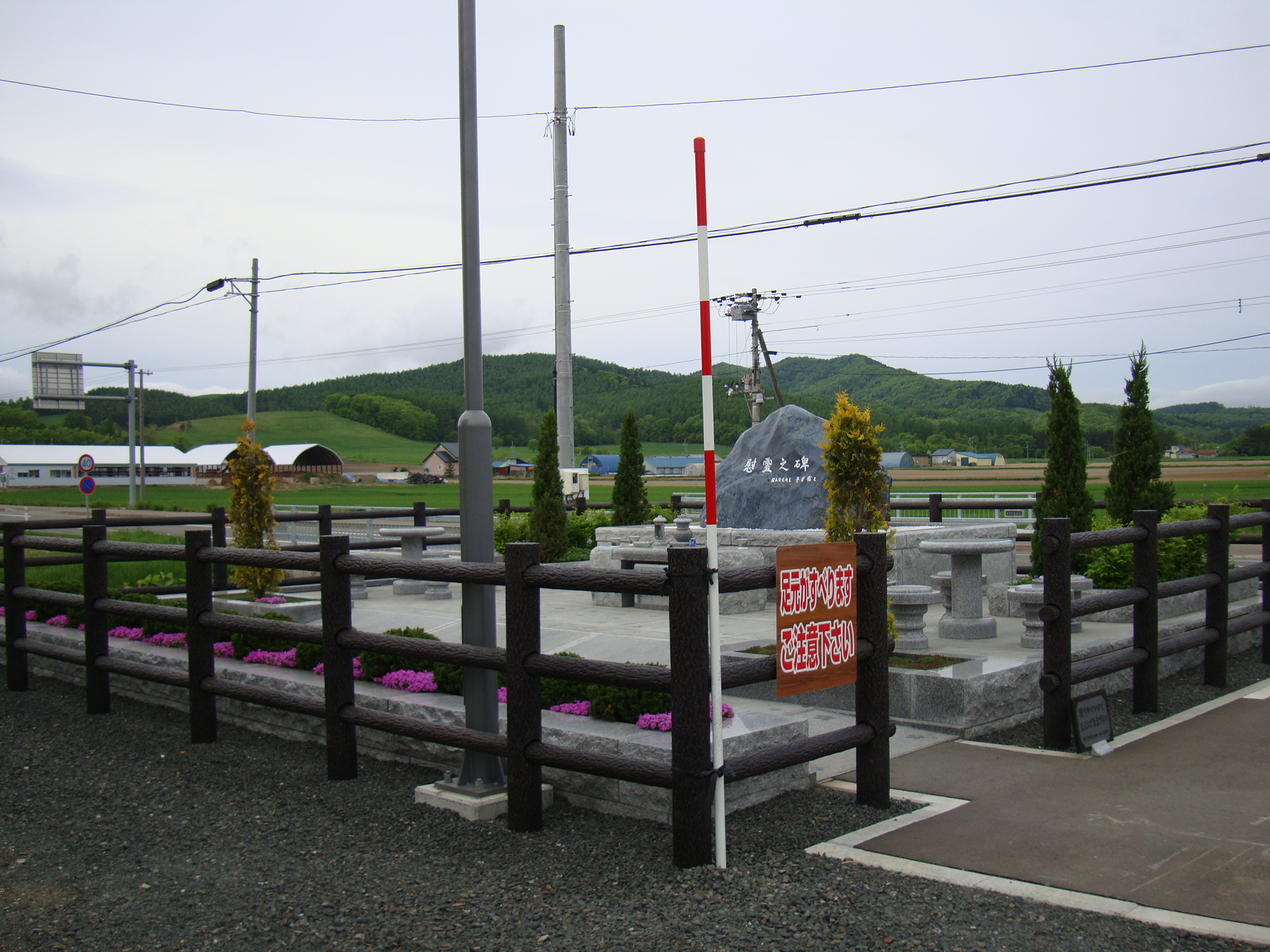 2006 Saroma tornado memorial service monument